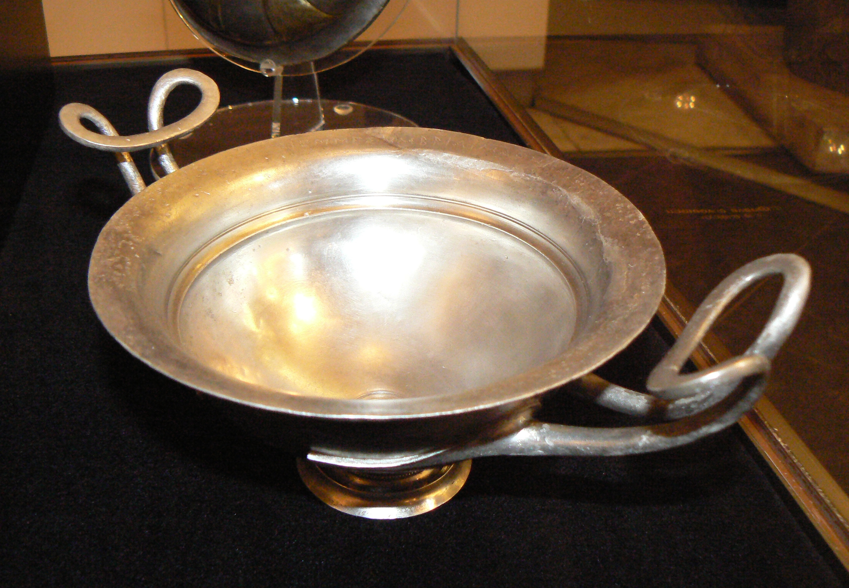 Kylix, 3 century BC. Exhibit of the National History Museum of Bulgaria